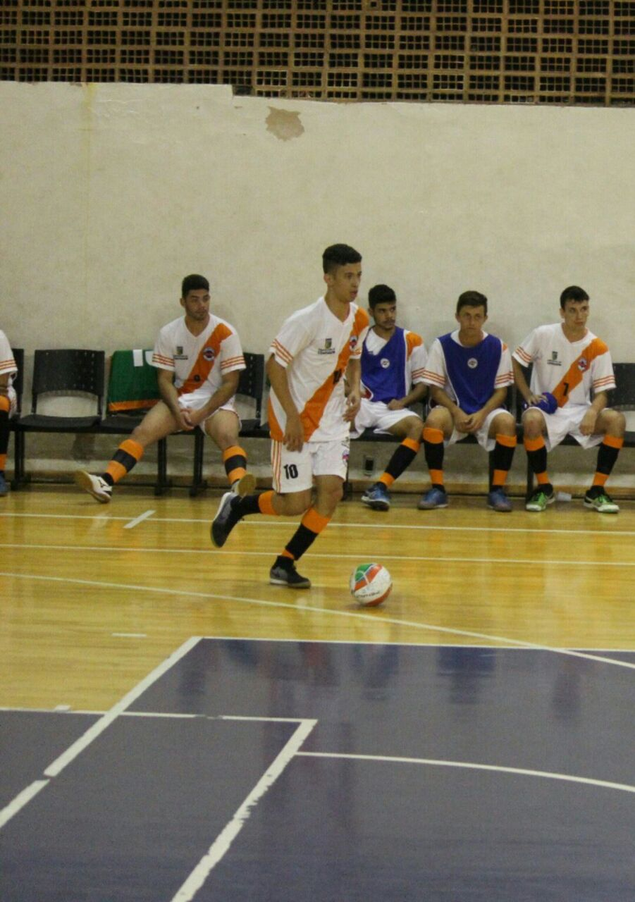 Player of the Vilense Professionalized.